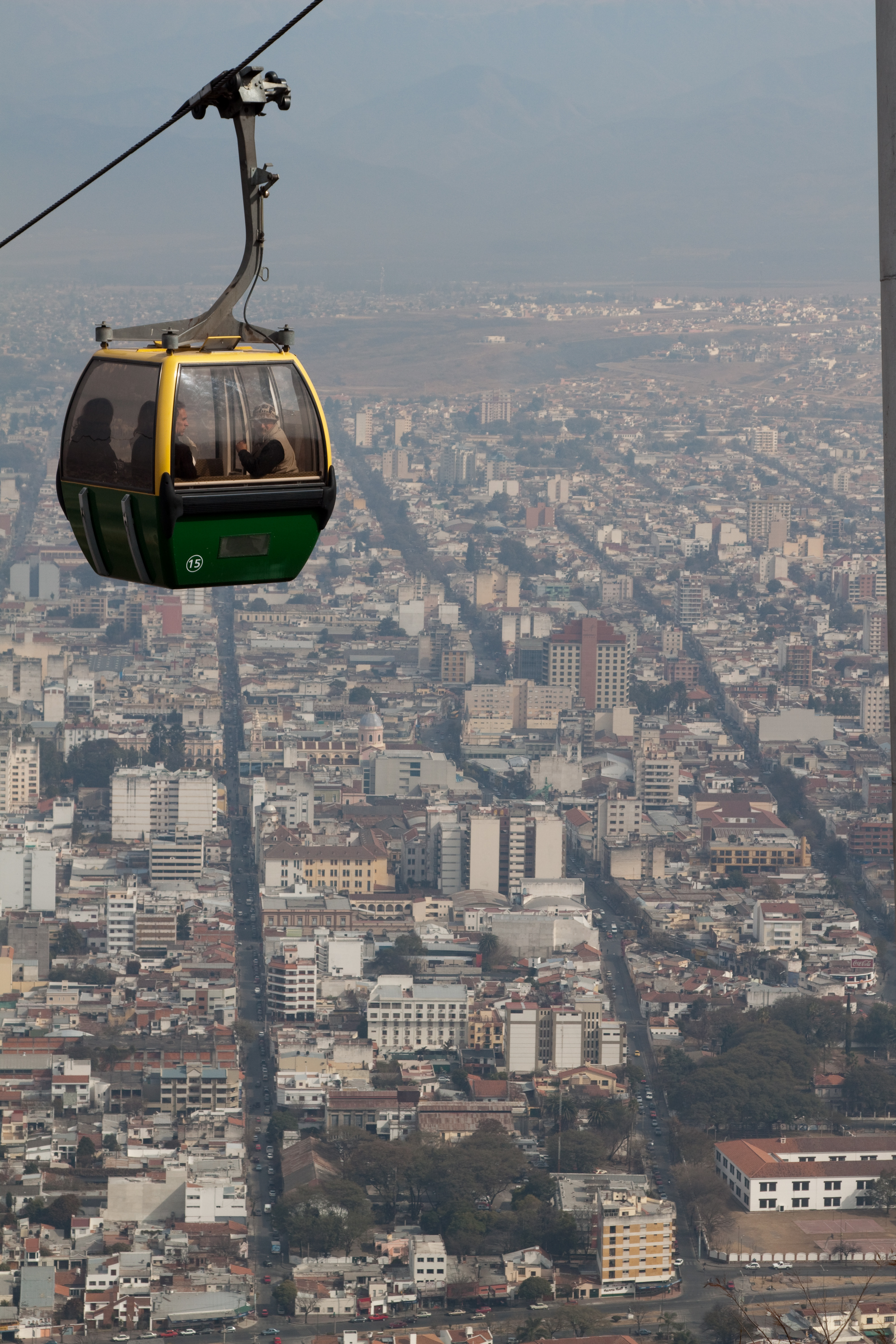 Cable car of Salta city (Argentina).